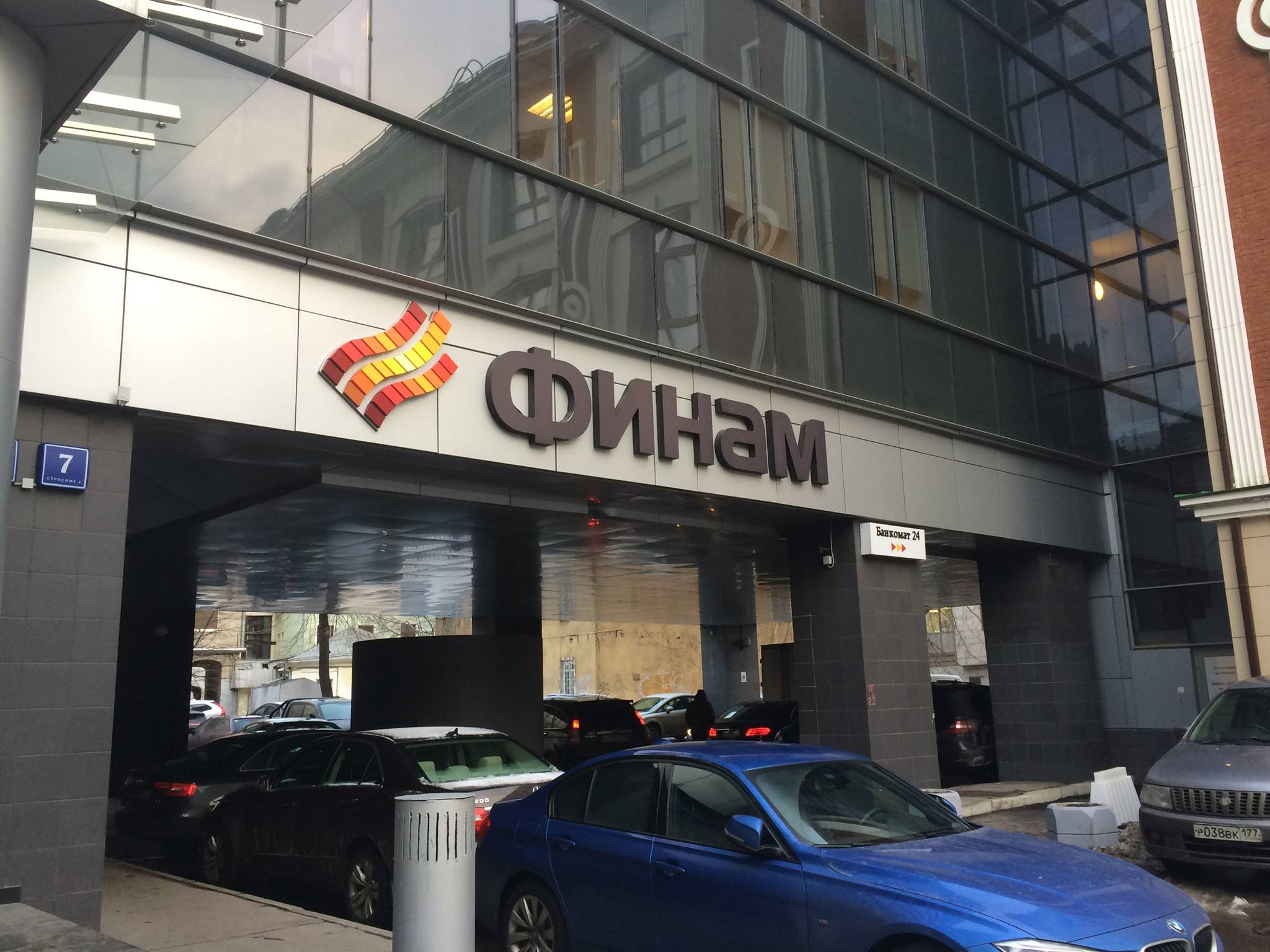 FINAM corporate headquarters in Nastasyinski pereulok in Moscow, Russia.